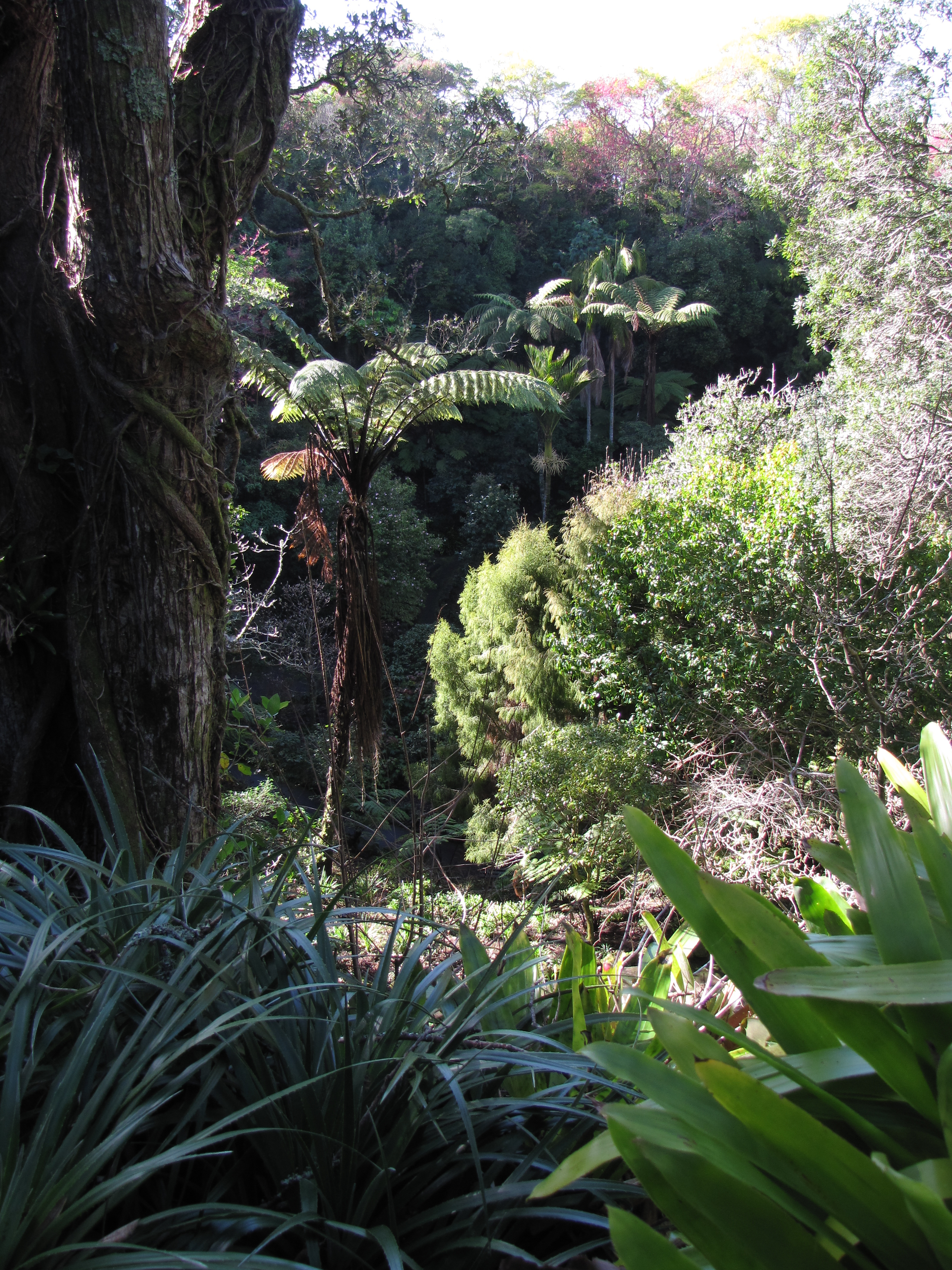 Eden Gardens, a former quarry developed into an attraction in Auckland, New Zealand